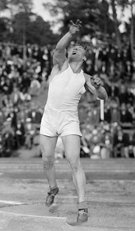 Sulo Bärlund got a silver medal in shot put in the 1936 Olympic games in Berlin. Here he is seen winning the Finnish championship in Kotka in 1935.